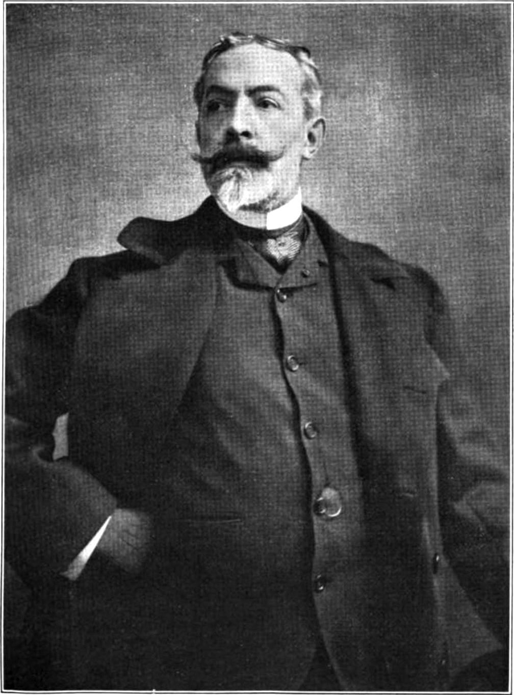 Théobald Chartran (1849–1907), classical French propaganda painter.